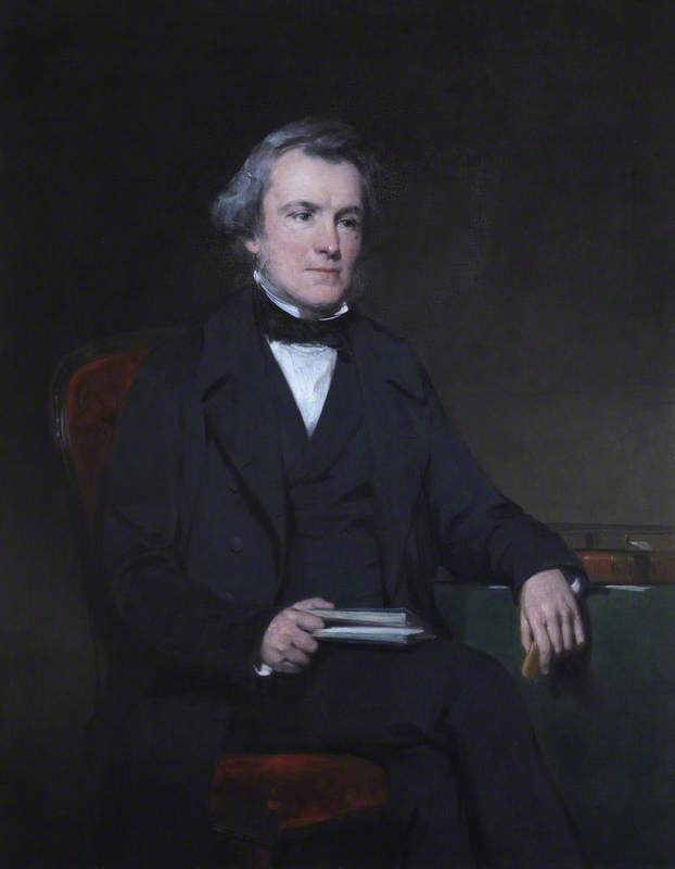 James Frederick Ferrier